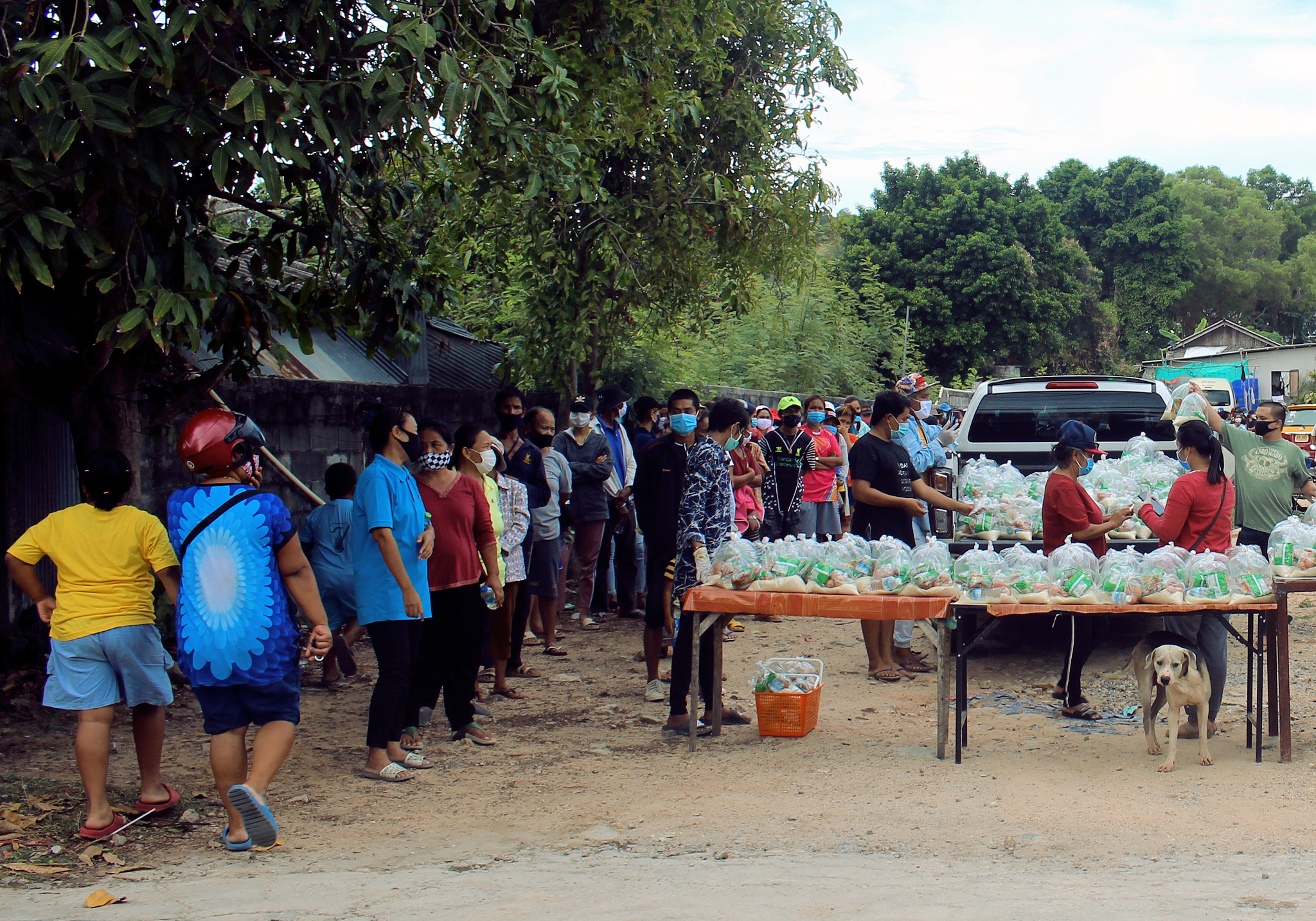 Queue for free food handout for those in need during the coronavirus lockdown. Photo from Bangrak-area on Koh Samui, Thailand at 17th April 2020.